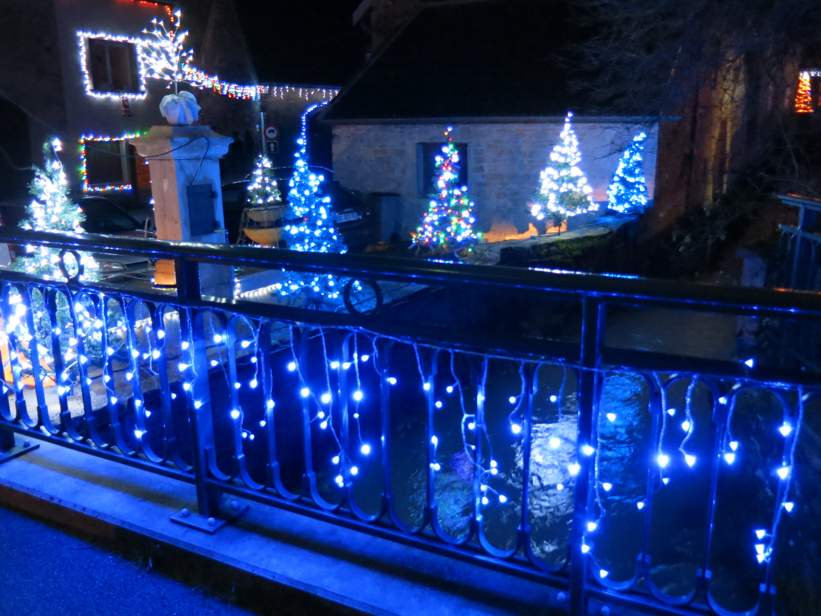 Illuminations 2014 in the village of Vercia (Jura, France).